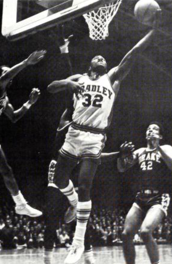 Bradley University Basketball player Al Smith